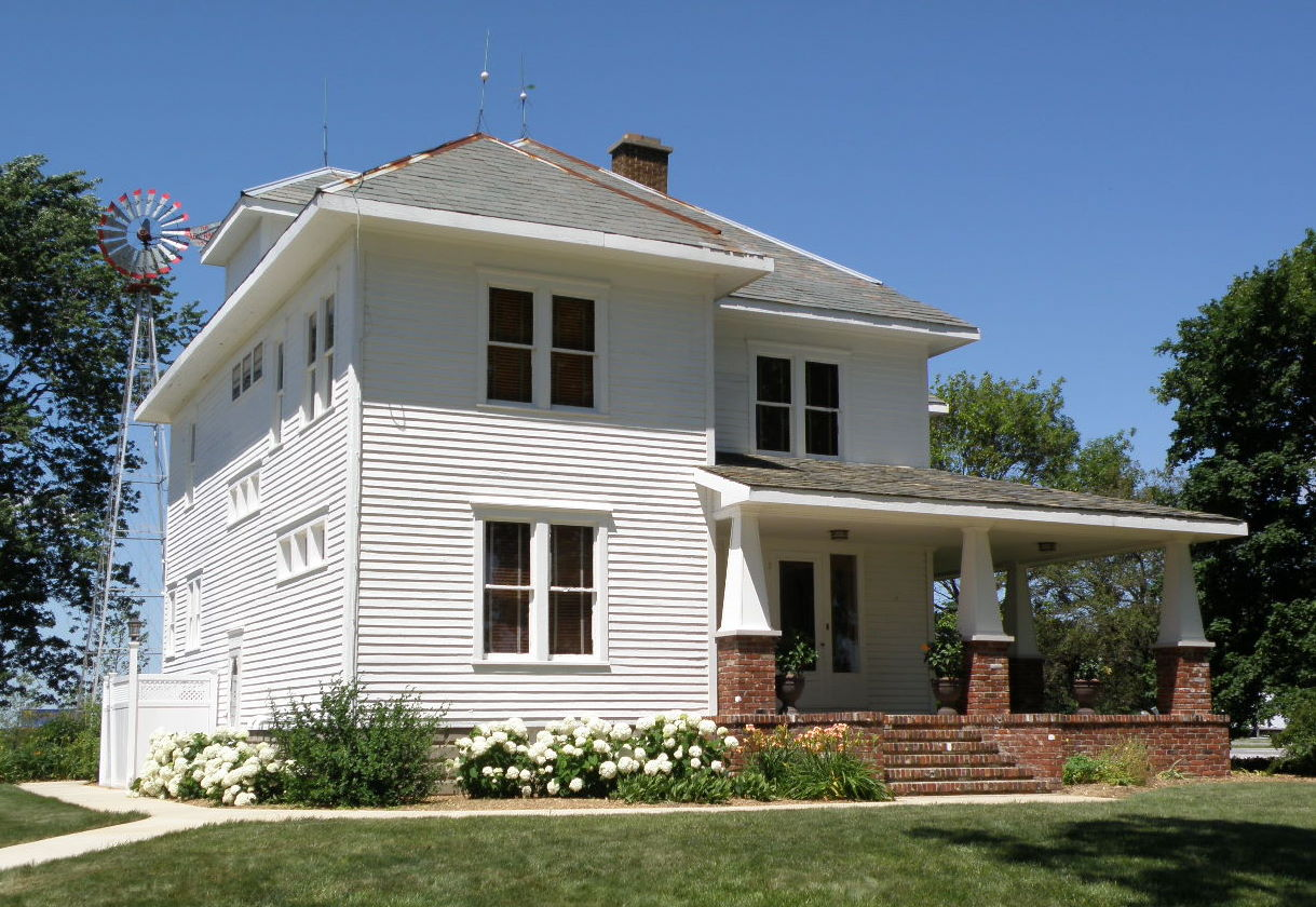 Kelley Historical Agricultural Museum ~ The home of E.W. “Ed” Kelley Kokomo Tribune Article